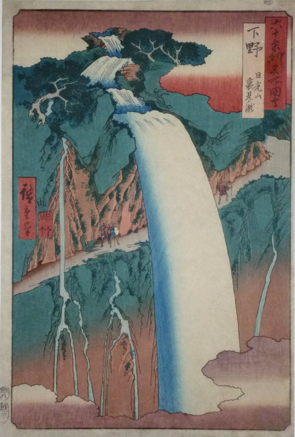 Shimotsuke Nikko Uraminotaki of the Famous Scenes of the Sixty States.